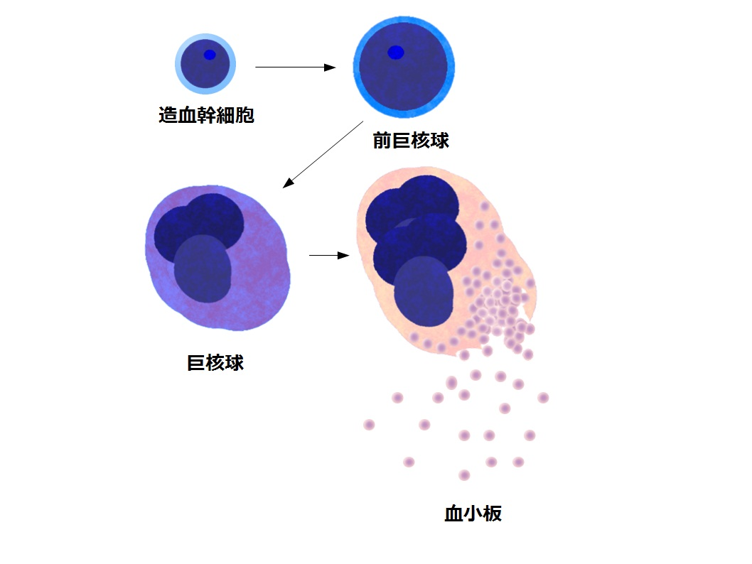 Platelets by budding off from megakaryocytes